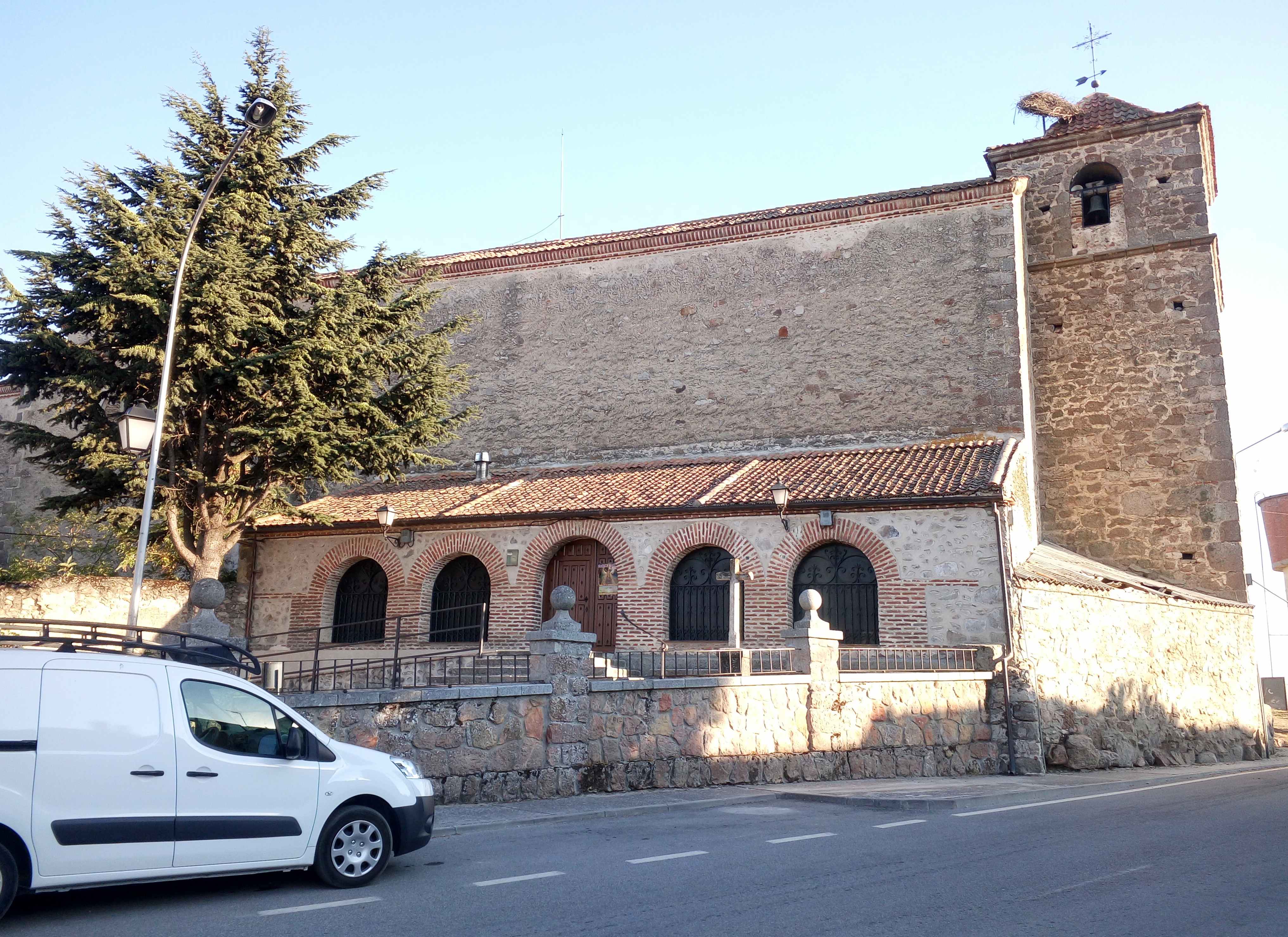 Church of the Exaltation of the Cross in Zarzuela del Pinar, Segovia, Spain.